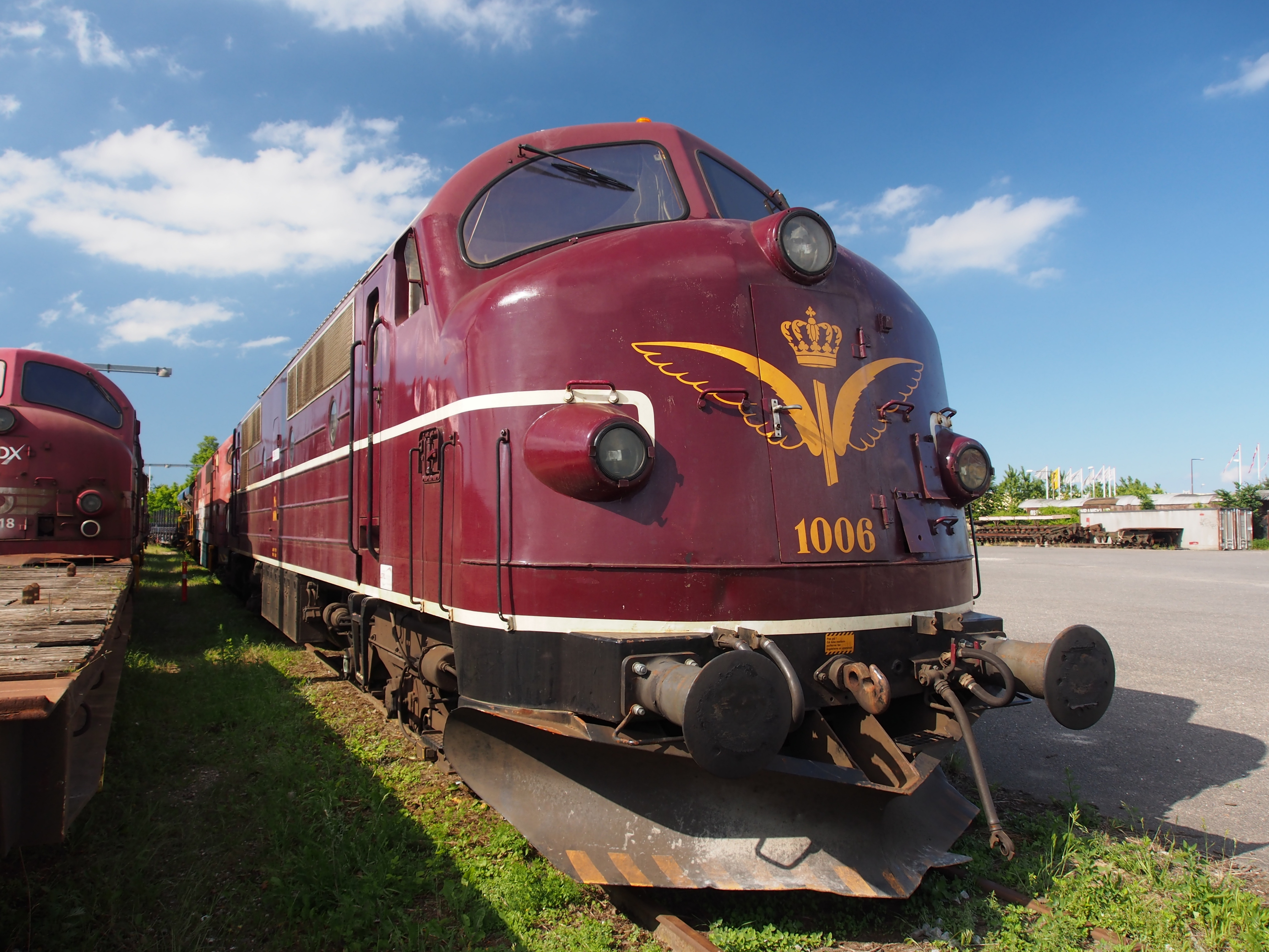 Photographed near Koge train station, Denmark.